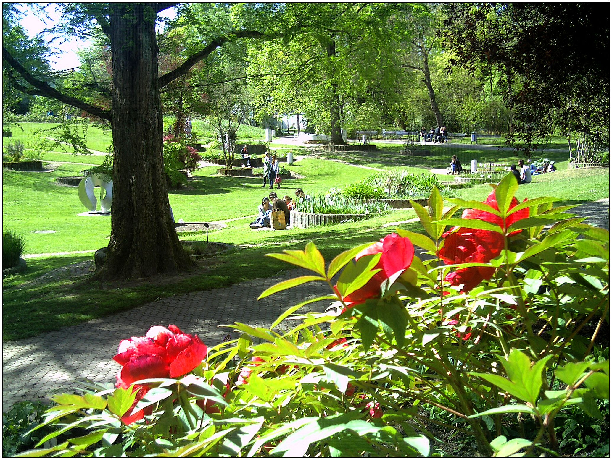 April Botanic Garden Freiburg - Master Botany Photography 2014